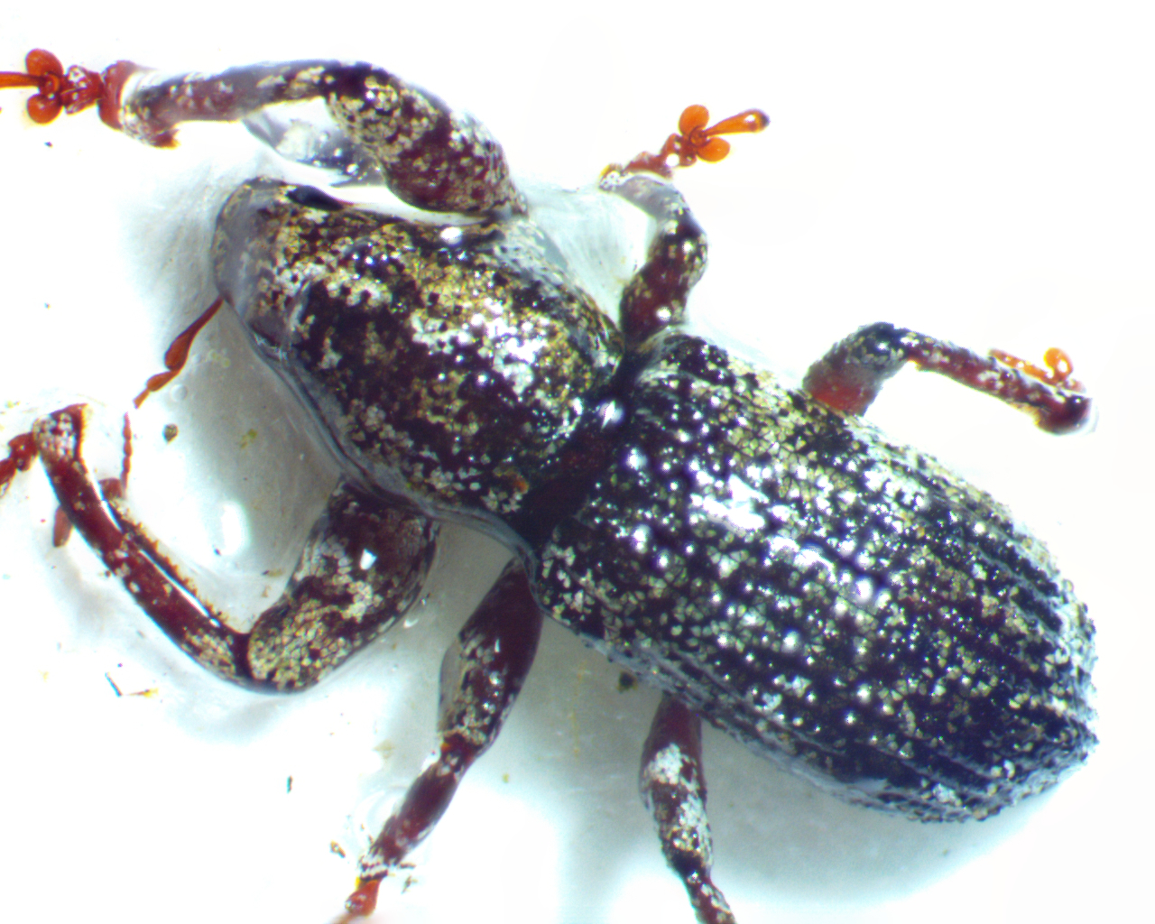 Pandeleteius hilaris. Species of insect.